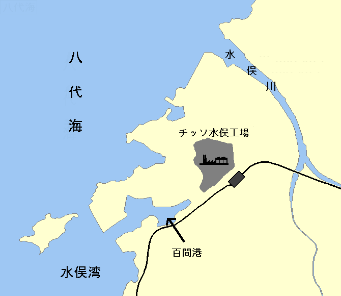 Map of Minamata, illustrating the Chisso factory and its effluent routes.(Transrate to Japanese)